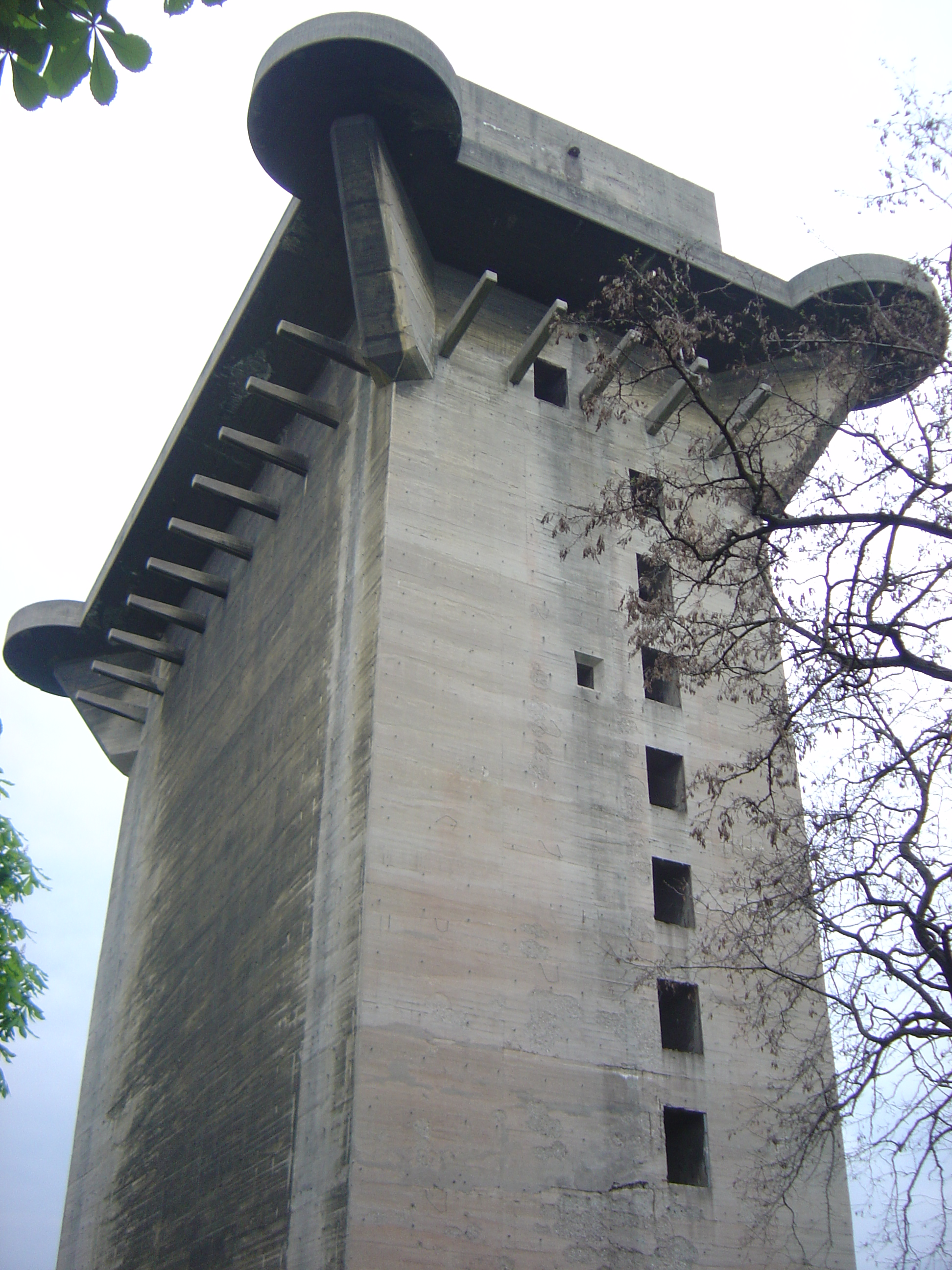 Vienna flak tower, The north flak tower in Augarten, Vienna, Austria